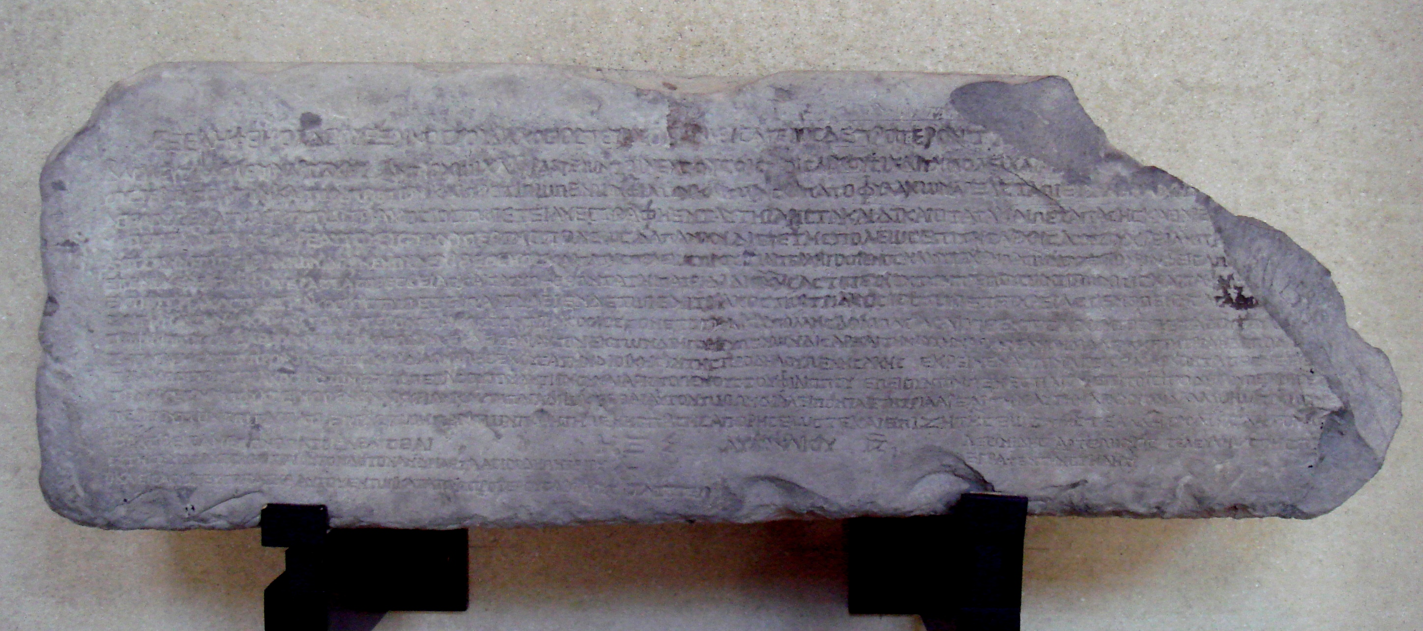 Letter in Greek of King Artabanus III to the inhabitants of Susa (21 AD).